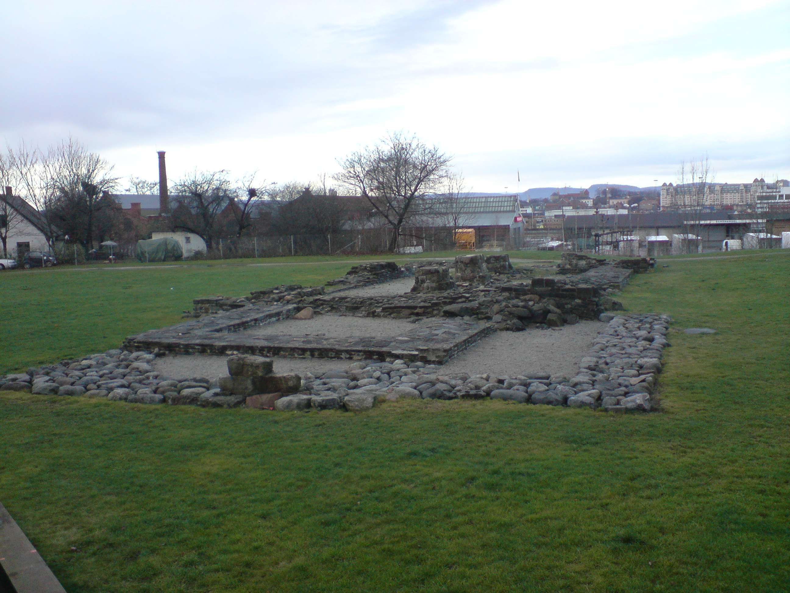 Ruins of the medieval Clemens-church in Oslo